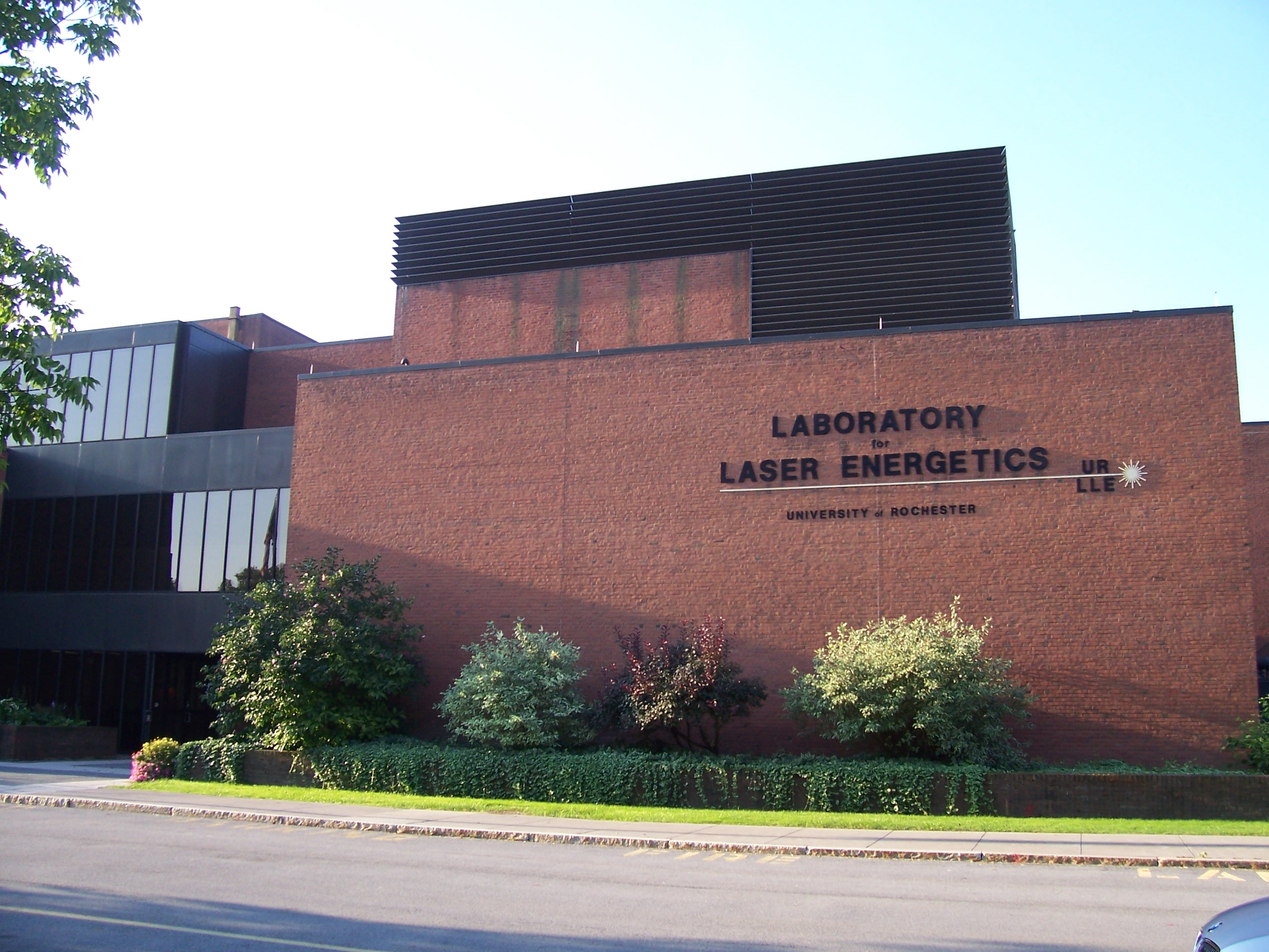 The University of Rochester's Laboratory for Laser Energetics in Brighton, Monroe County, New York